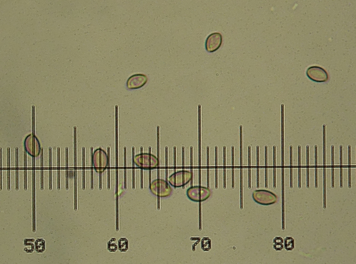 Spores of Deconica subviscida Peck Image location: O’Neill Regional Park, Trabuco Canyon, Orange Co., California, USA I will try to get around to micro on these tomorrow. Much better shape than the last ones I found. Used references: Based on microscopic features: ellipsoid spores ~7 × 5 um, I think I see a germ pore. For more information about this, see the observation page at Mushroom Observer.